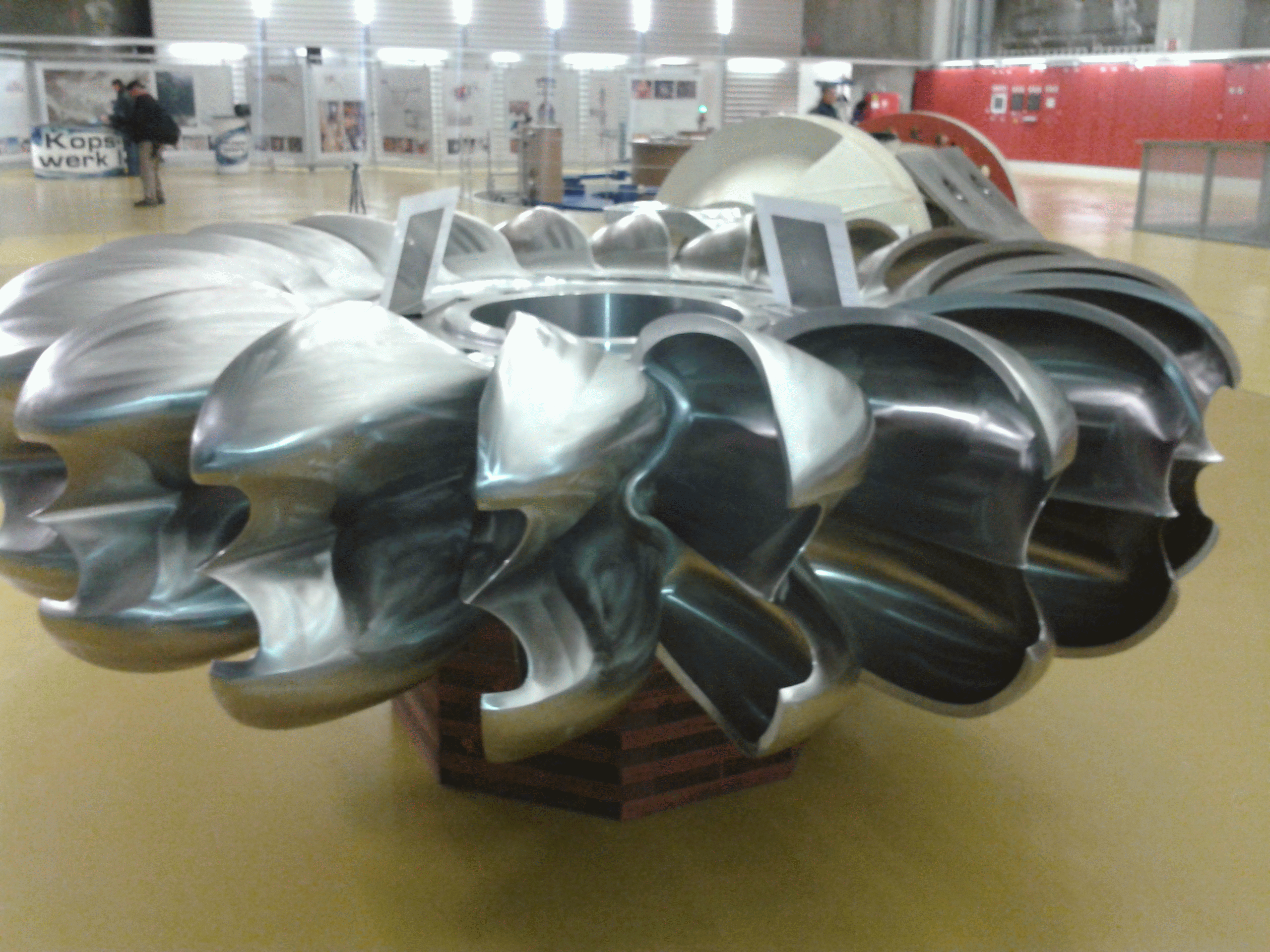 Kopswerk II - modell of a Pelton runner